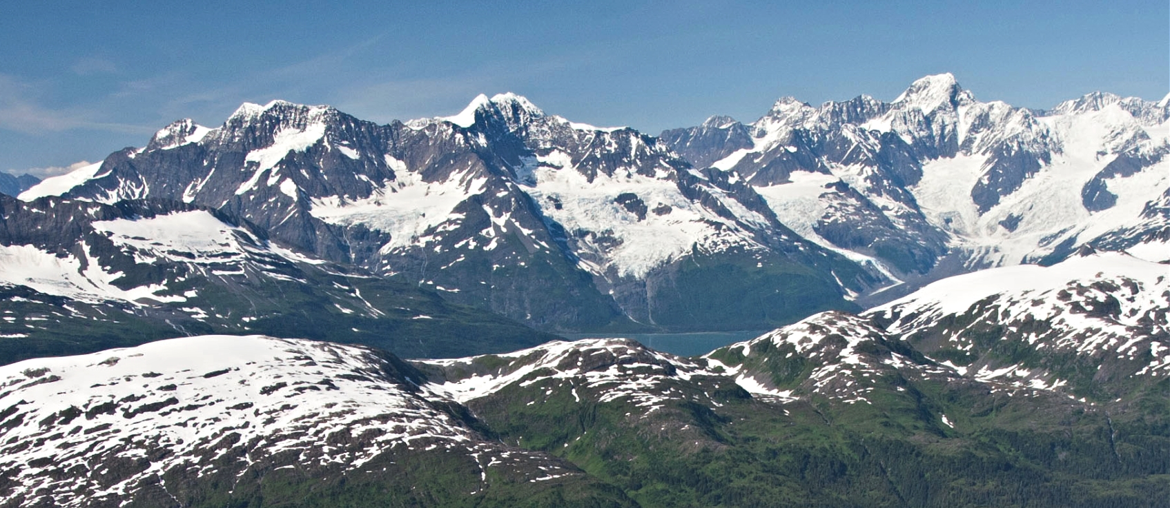 Mount Muir and Mount Gilbert aerial between College Fjords and Port Wells, Prince William Sound, Chugach National Forest, Alaska.